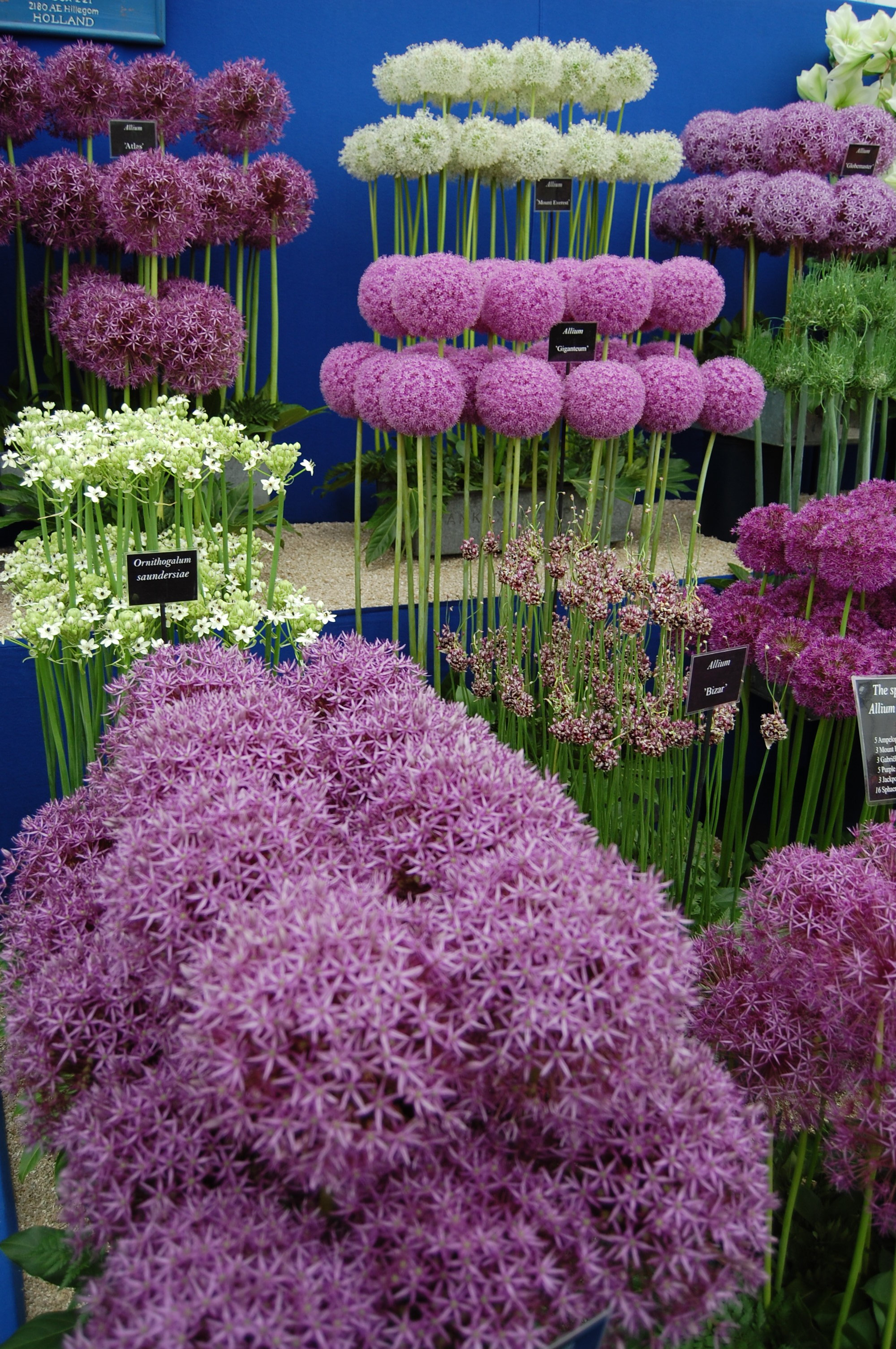 Selection of cultivated Alliums at the BBC Gardeners' World show, National Exhibition Centre, near Birmingham, England.